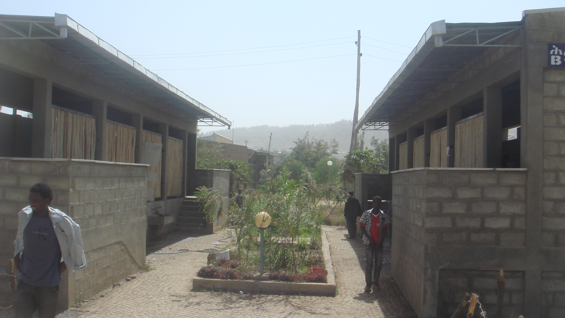 Photo by Solomon Kore, Apr. 2012